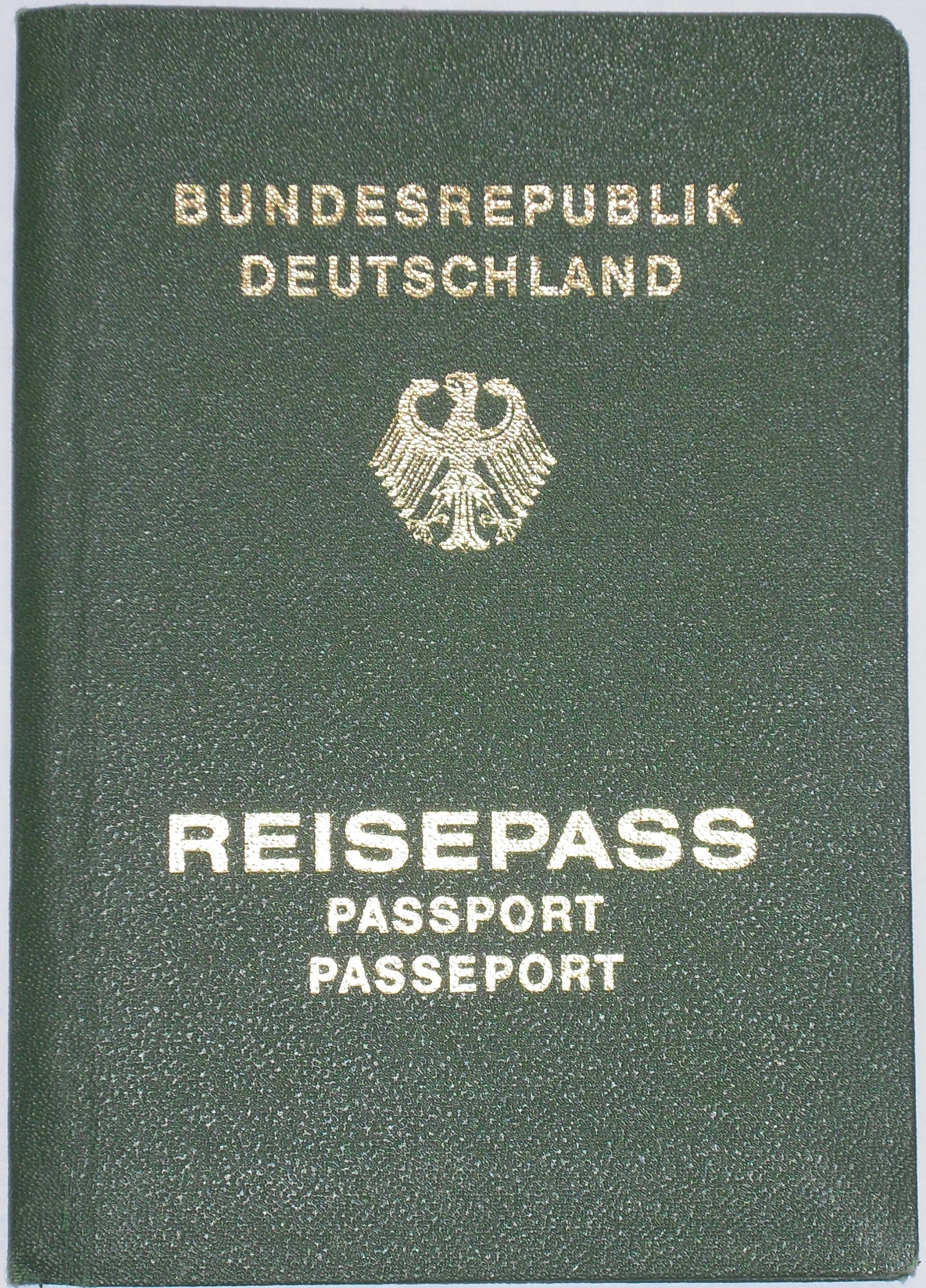 West-German passport, pre-EC/EU design (1980)